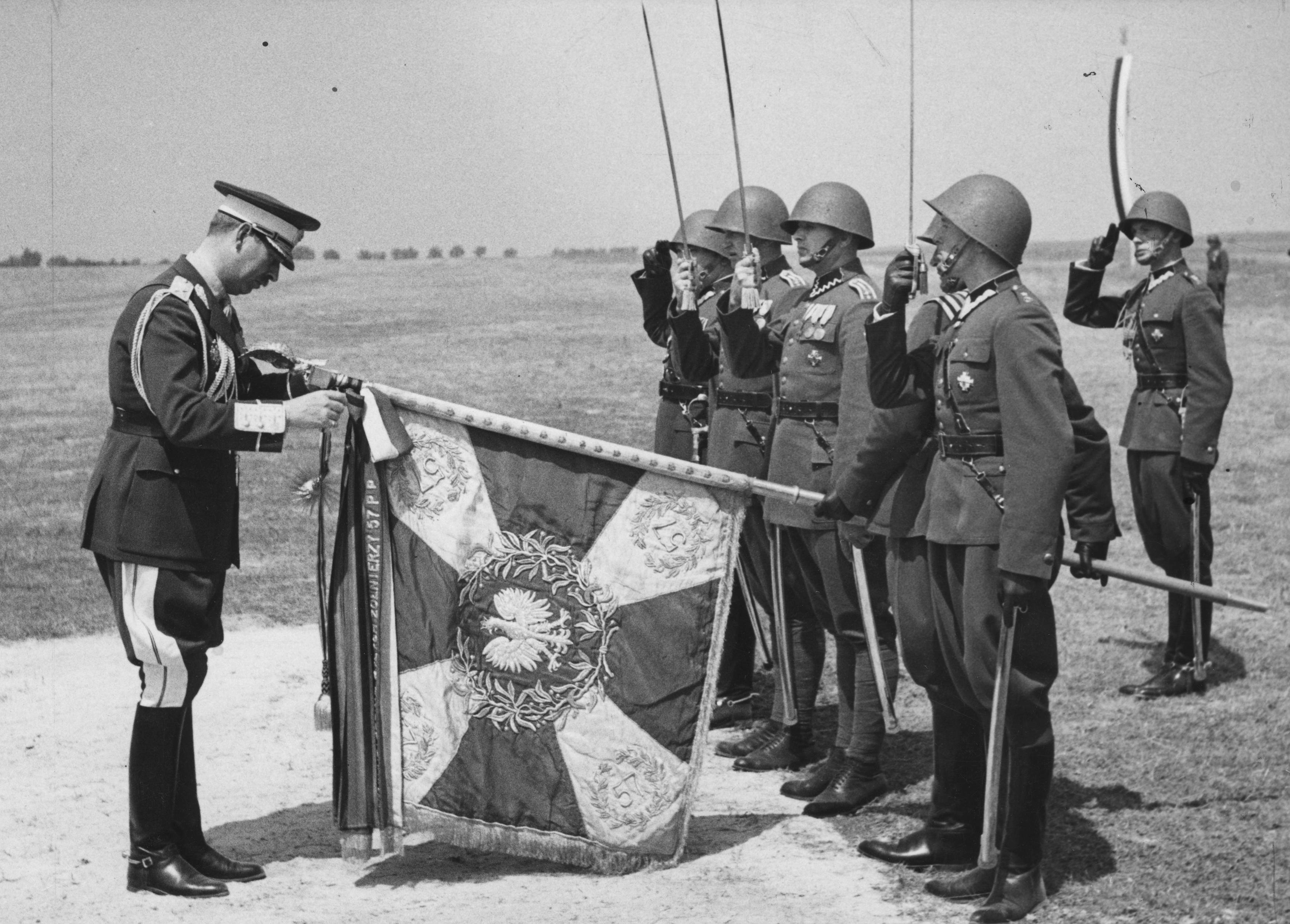 King Carol II of Romania decorates a standard of the Polish 57th Infantry Regiment, of which he had taken a honorary command .